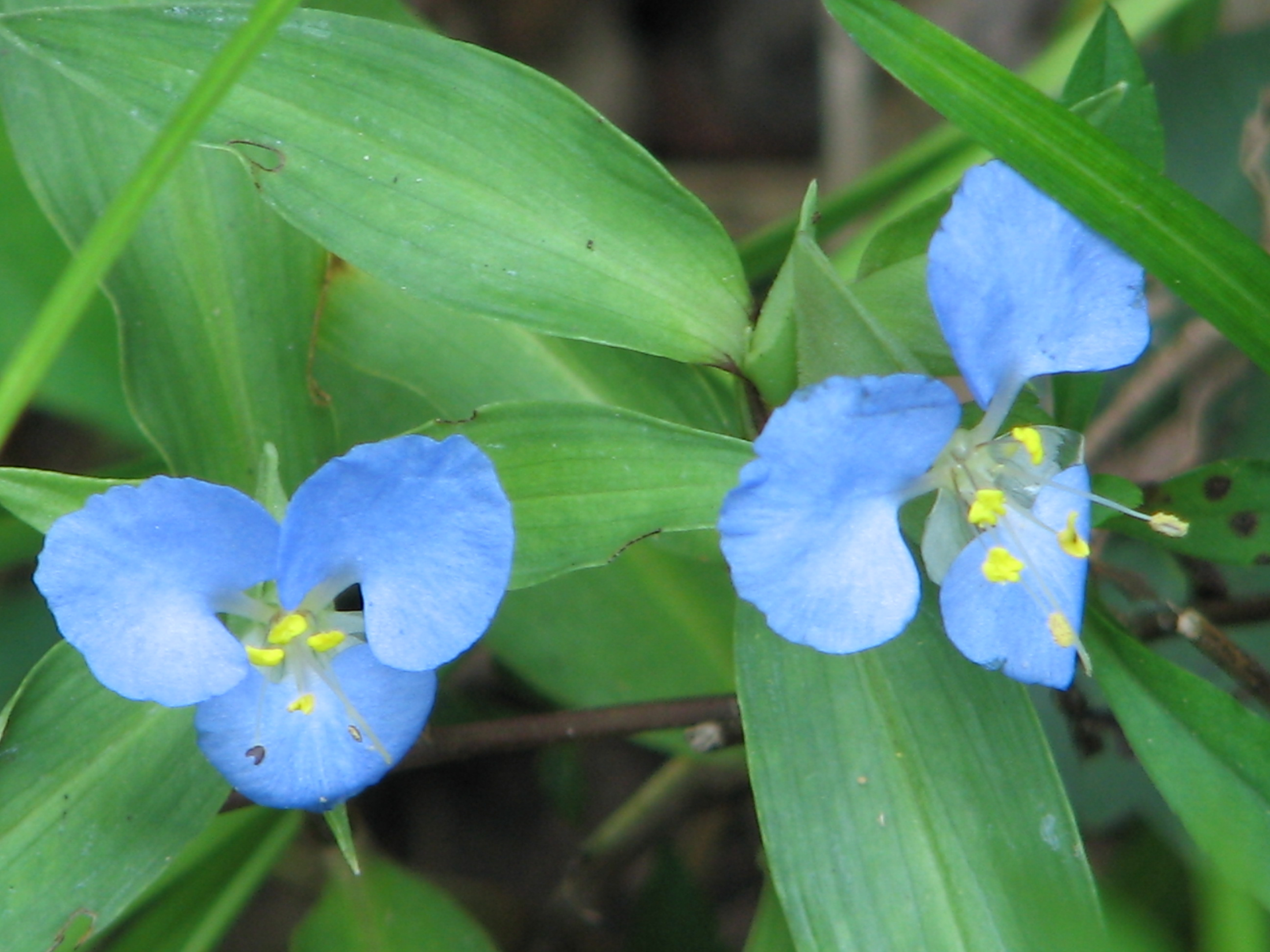 Commelina virginica at Congaree National Park, South Carolina, USA